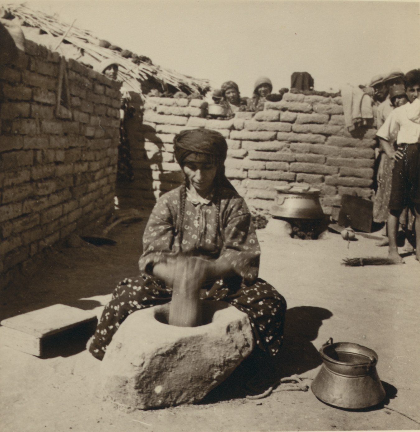 Assyrian refugees at Tell-Tamar and the Khabour River, July 21. Something of the twenty-seven villages built here by the League of Nations. Pounding burgul with a stone pestal. LC-DIG-ppmsca-17416-00120 (digital file from original on page 64, no. 2094A)